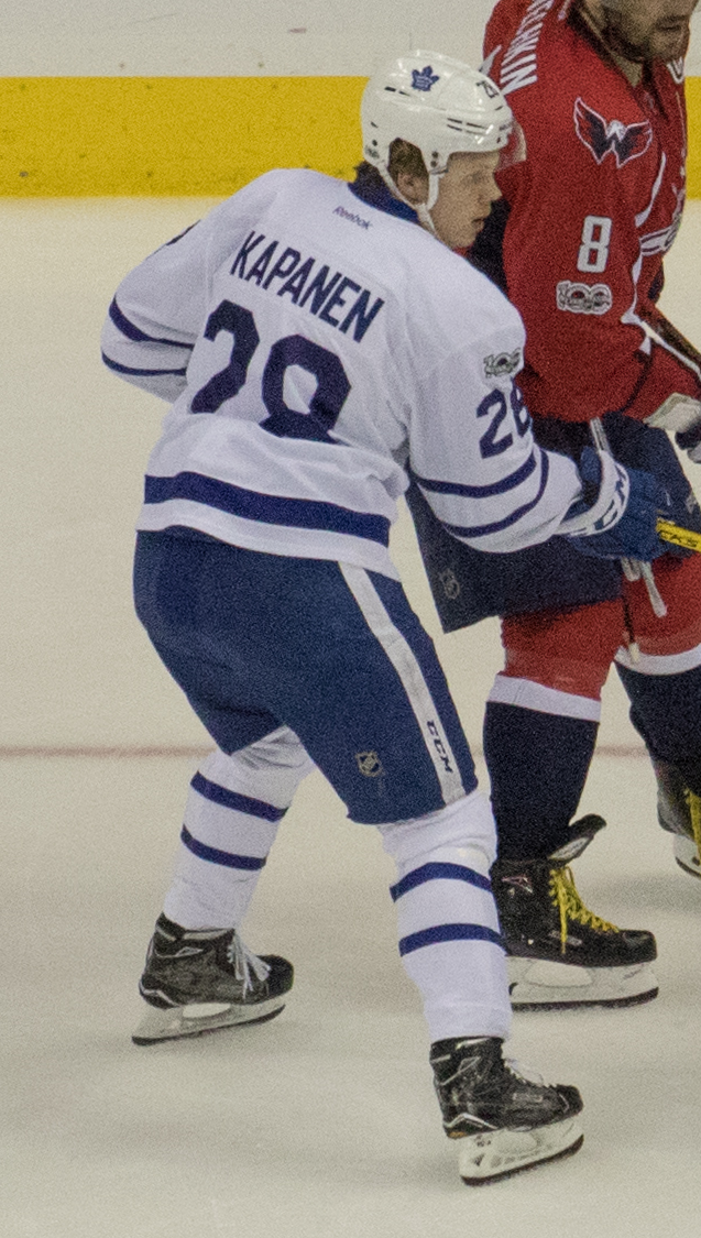 Kasperi Kapenen with the Toronto Maple Leafs during the 2017 playoffs